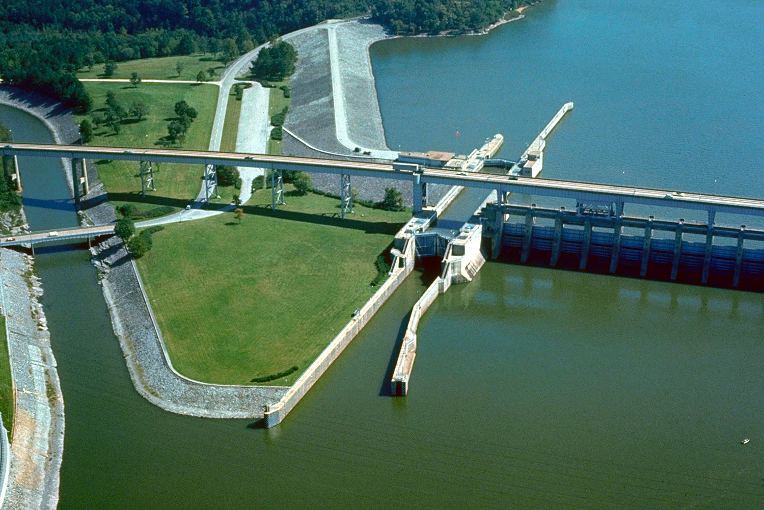 Chickamauga Lock and Dam on the Tennessee River at Chattanooga, Tennessee, USA. The locks are operated and maintained by the U.S. Army Corps of Engineers.